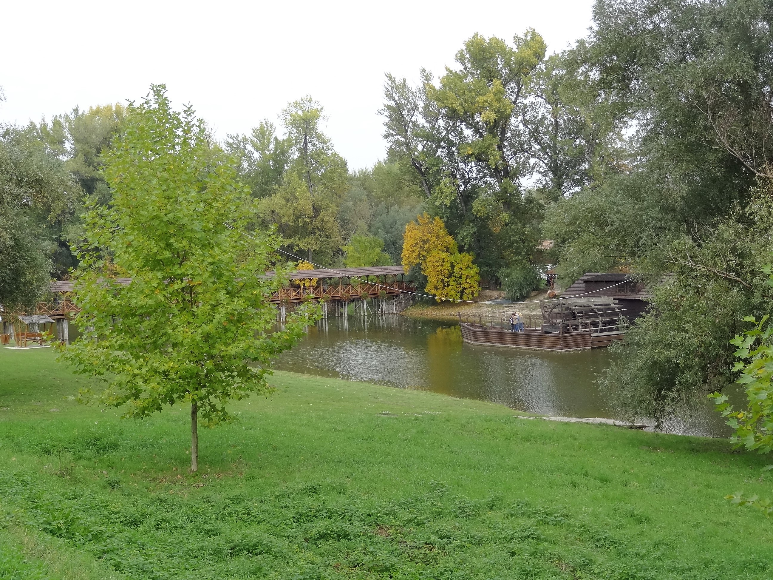 shipmill in Kolárovo, Slovakia